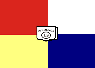 XV Corps, Army of the Tennessee, HQ Division Badge